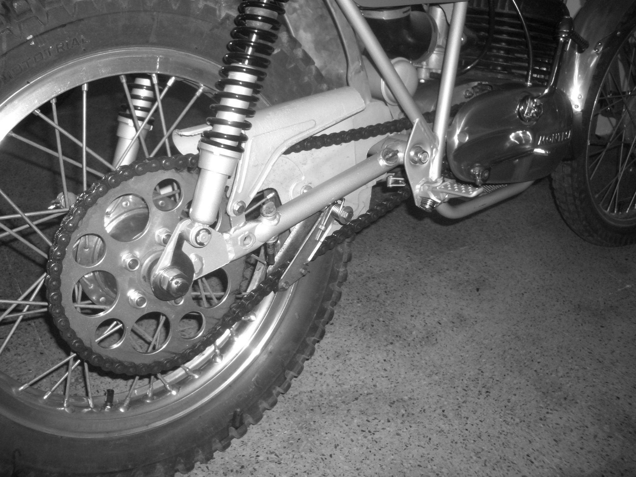 Montesa Cota 247 1972: oil tank